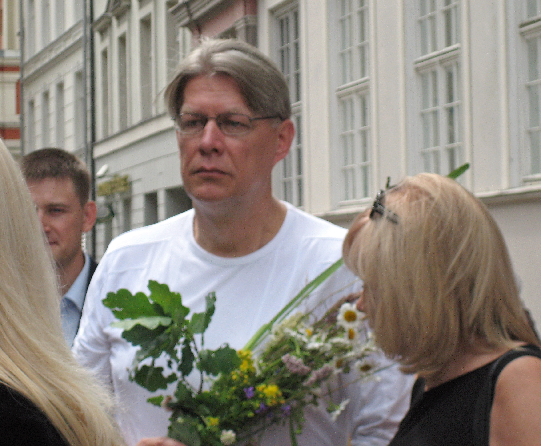 The new president Valdis Zatlers visiting the midsummer market in Riga. He did smile most of the time...